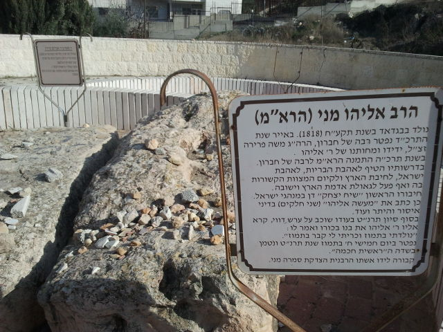 Rav Eliyahu Meni tombston at the Hebron jewish cemetery